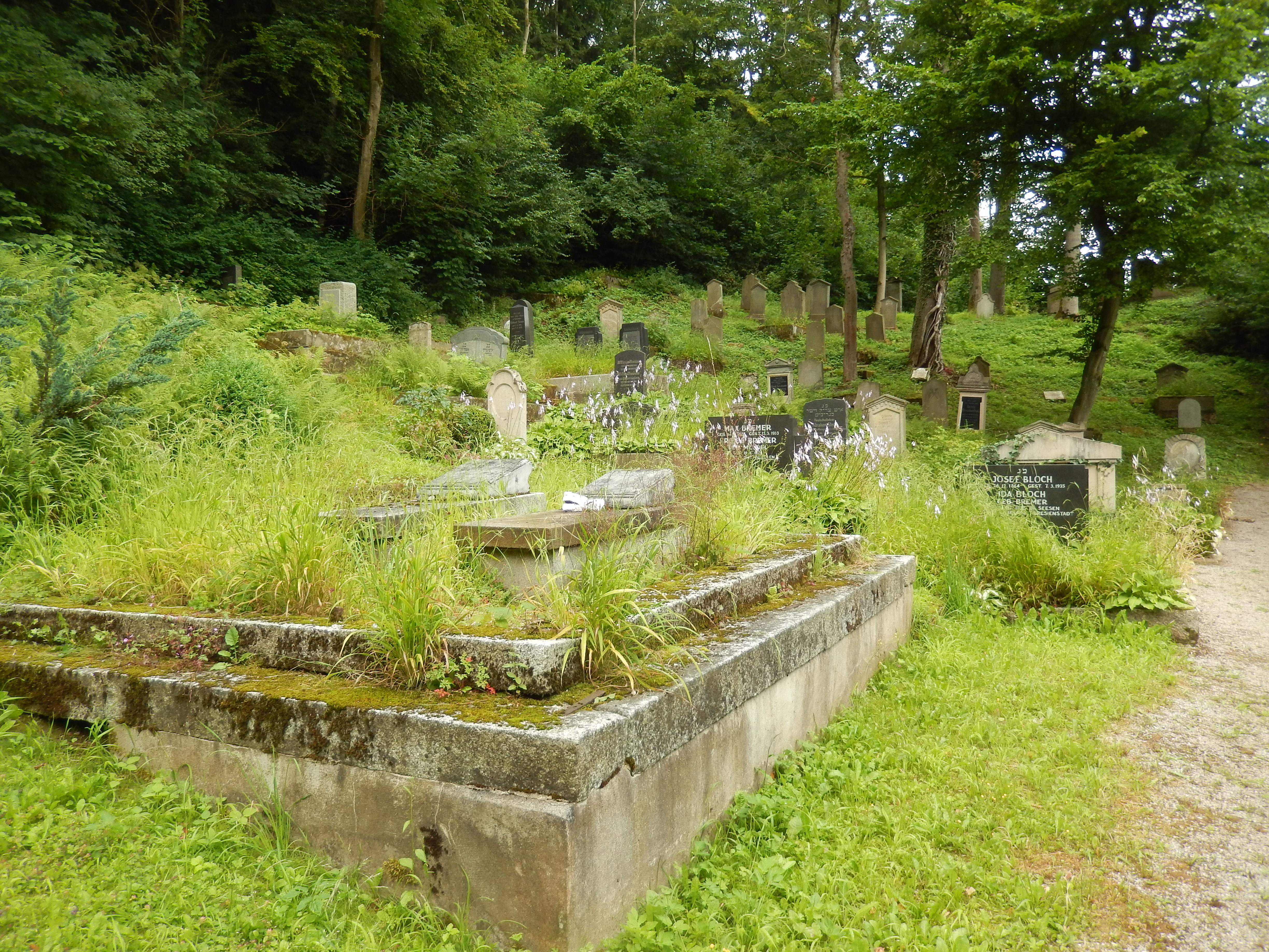 Jewish cemetery in Seesen, Germany.